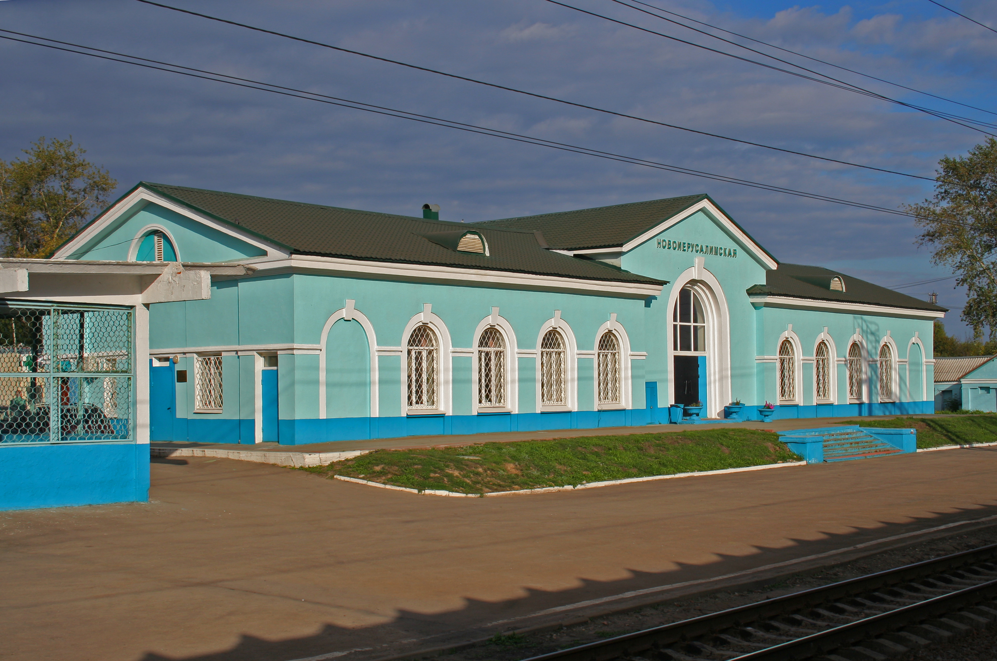 Train station Novoierusalimskaya in Moscow Oblast